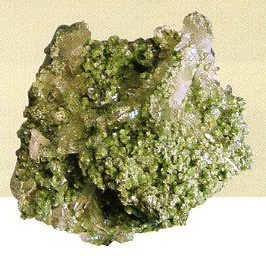 This is mineral